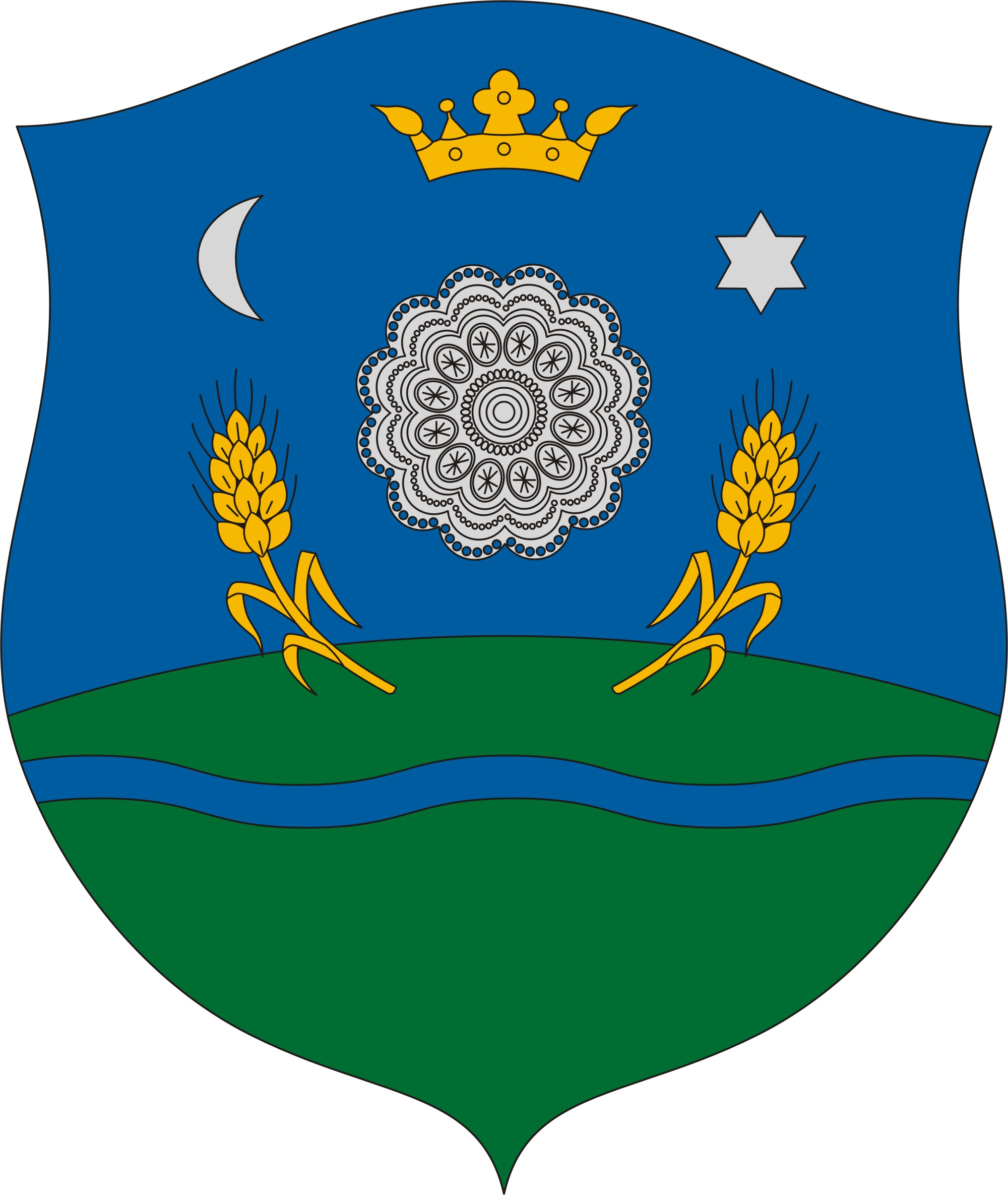 Coat of arms of Hövej, Hungary